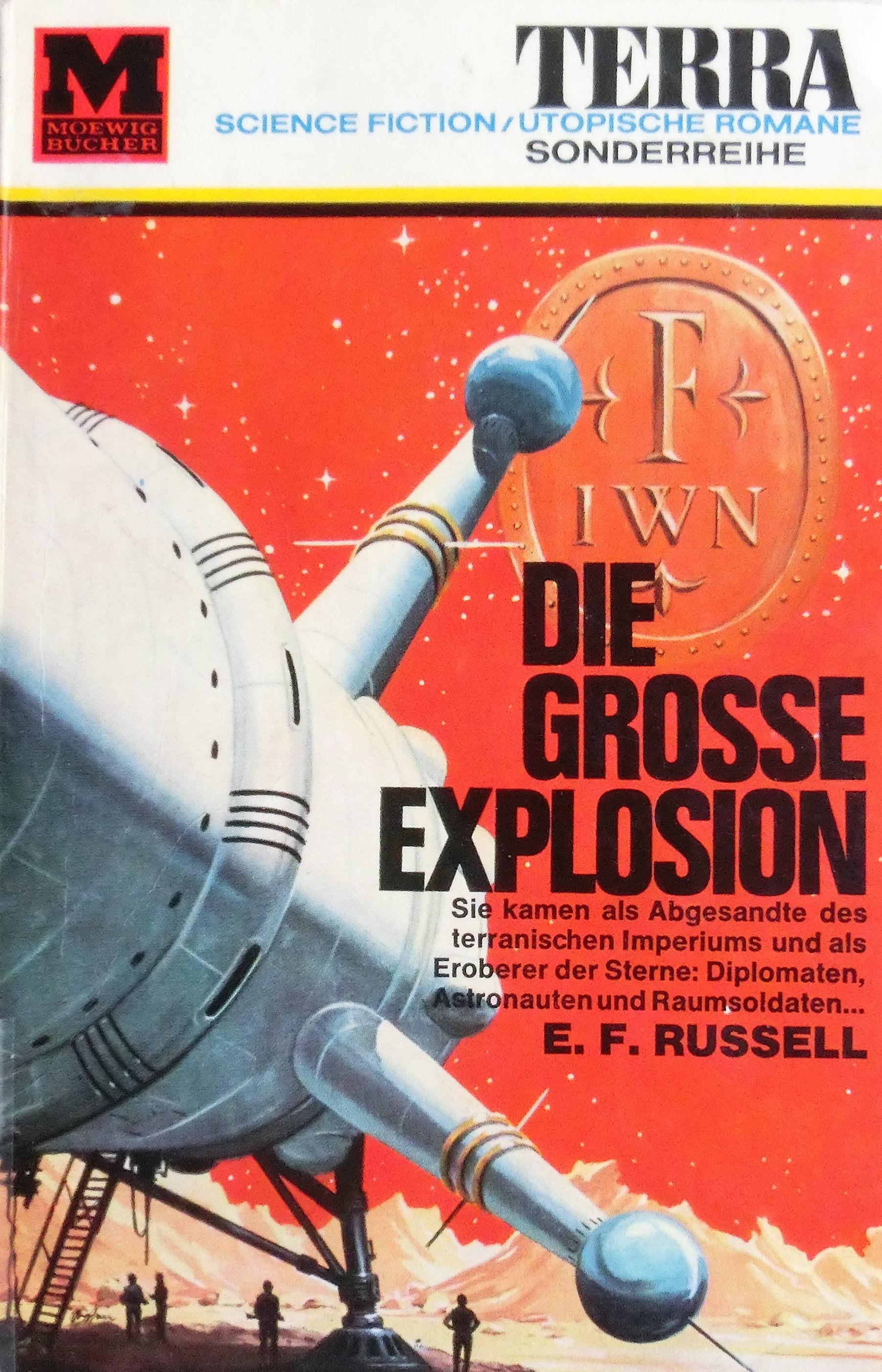 Cover of the Book "The Great Explosion" from Eric Frank Russell in German